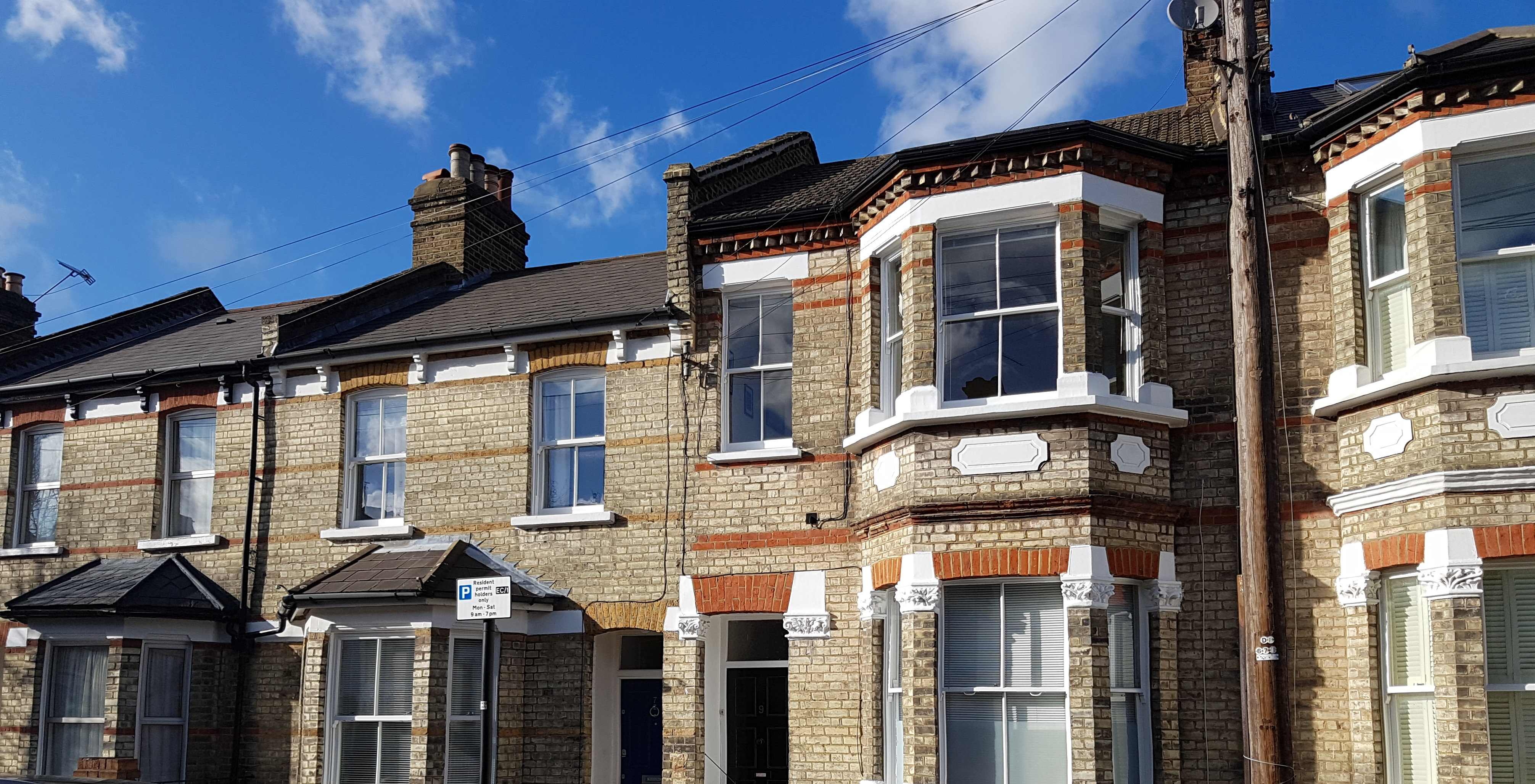 Housing